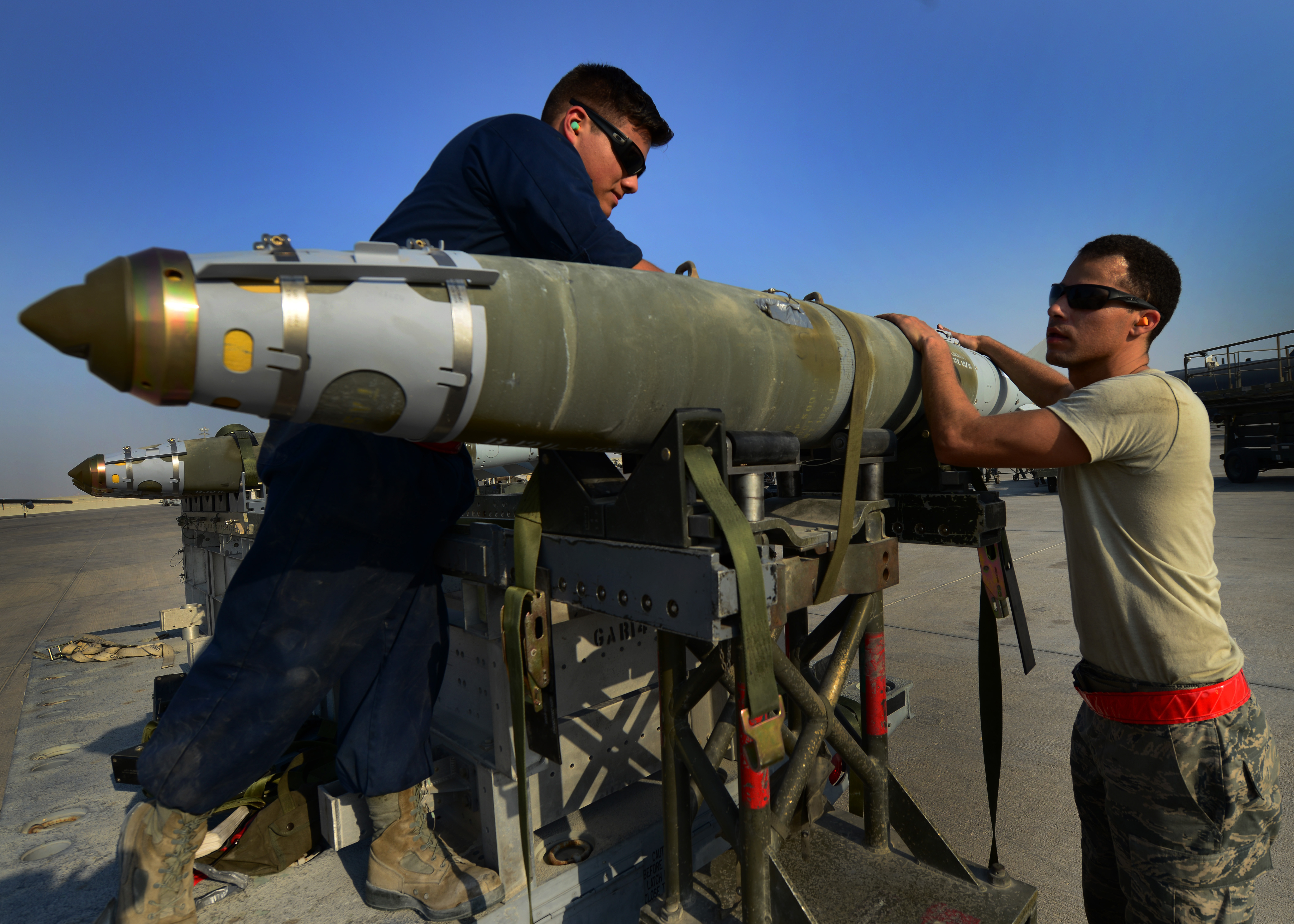 Airmen assigned to the 379th Expeditionary Aircraft Maintenance Squadron prepare to load a Joint Direct Attack Munition onto an aircraft Oct. 19, 2016.The air operations in support of the offensive to recapture Mosul are conducted as part of Operation Inherent Resolve, the operation to eliminate Da’esh and the threat it poses to Iraq, Syria, the region and wider international community. (U.S. Air Force photo/Senior Airman Miles Wilson/Released)